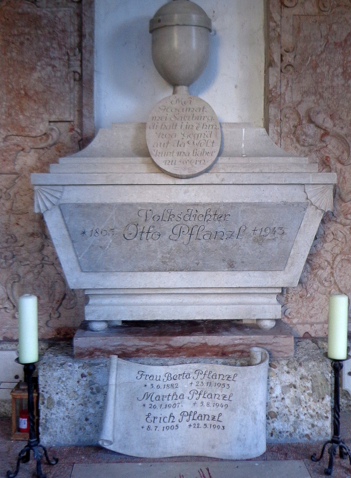 Crypt 41 (Petersfriedhof Salzburg): grave of Otto Pflanzl